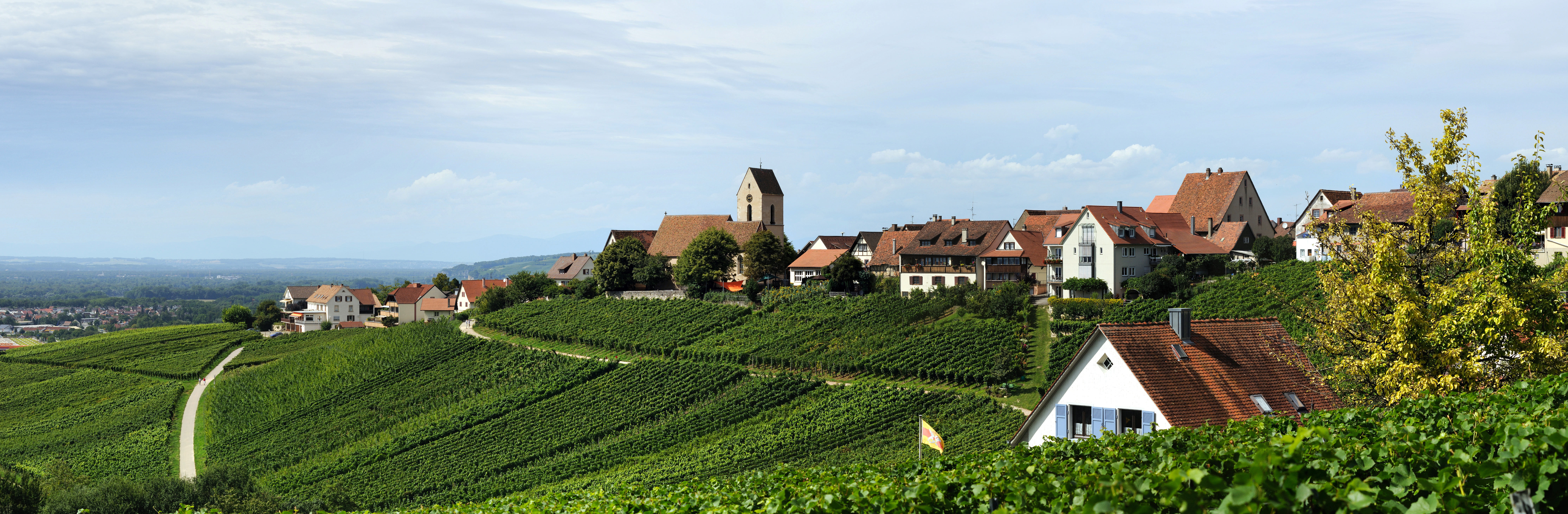 Panoramic view of Ötlingen from Southeast, the hilly landscape is typical for the region of Markgräflerland